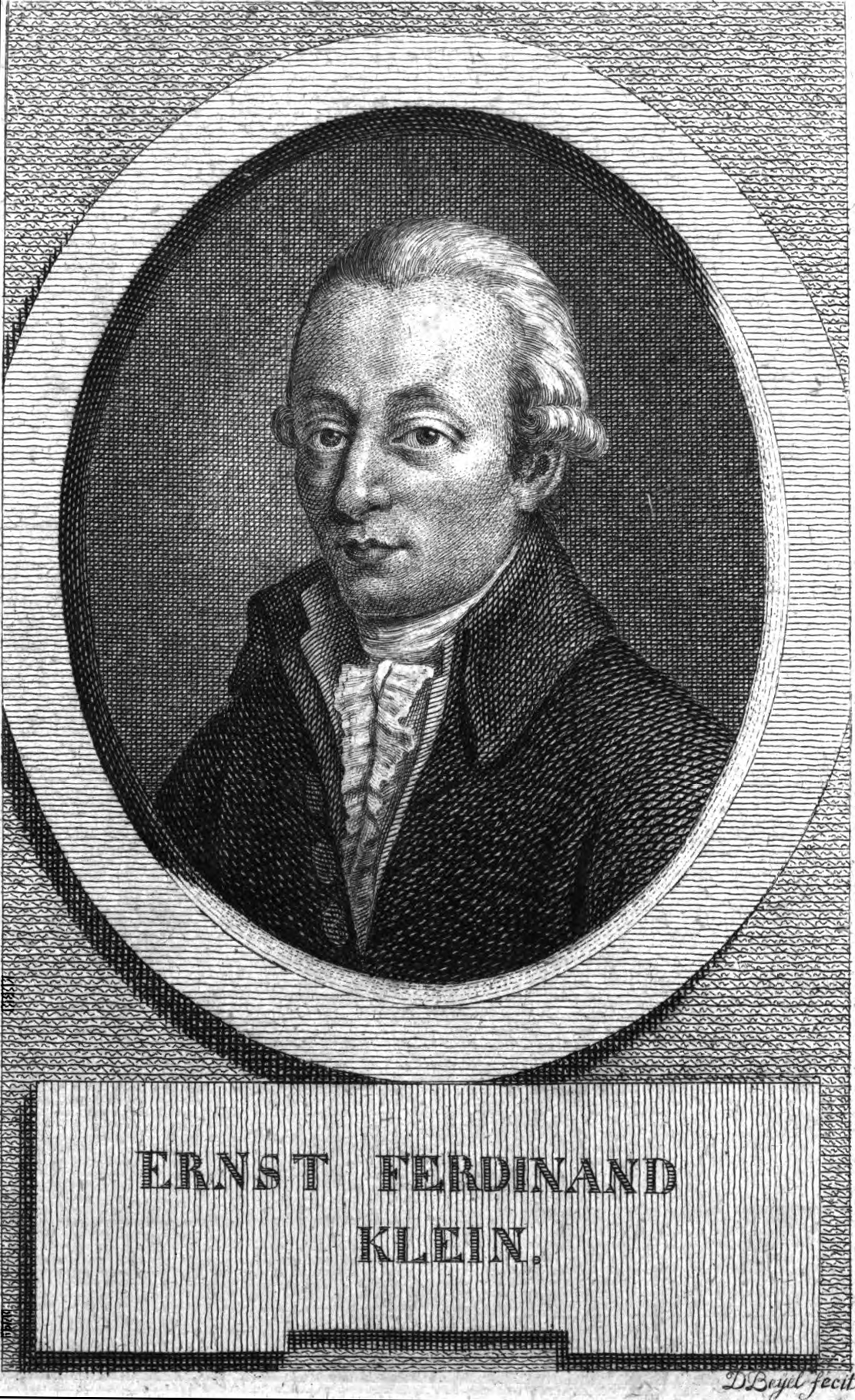 Picture of Ernst Ferdinand Klein (3 September 1744 Breslau; † 18 March 1810 Berlin)